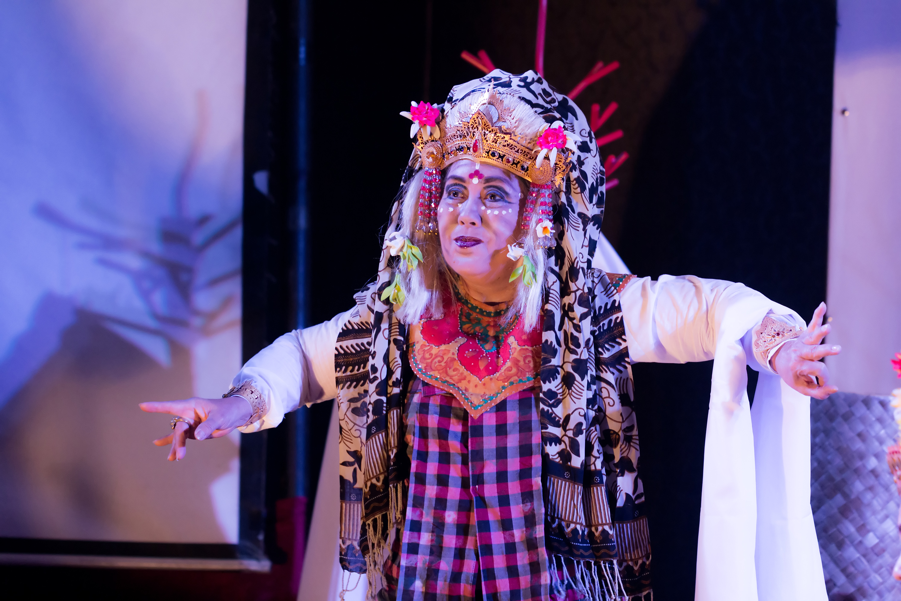 A performance of Satua Calonarang by the AyuBulan Legong Dance Group at the International Conference on Feminism on 24 September 2016. This conference was held by Jurnal Perempuan at the Swiss-Belhotel in Kemang, Jakarta, in commemoration of its twentieth year. This scene shows Calon Arang